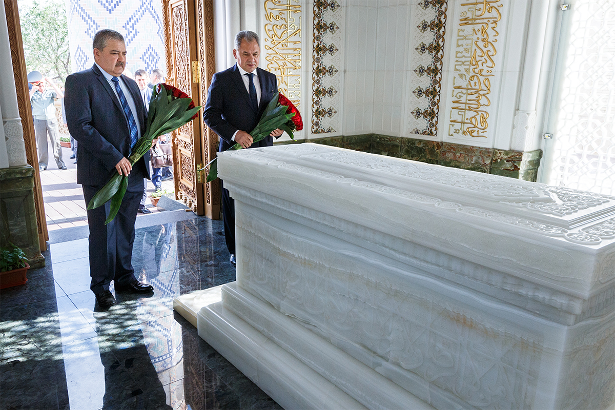 Visit of the Minister of Defense of the Russian Federation in Uzbekistan.